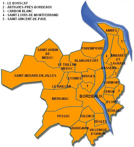 Map of the communes in the Urban Community of Bordeaux